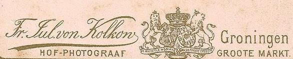 Photographic atelier Friedrich Julius von Kolkow (1839-1914). Text reads: ""Fr. Jul. von Kolkow, Hof-Photograaf, Groote Markt, Groningen